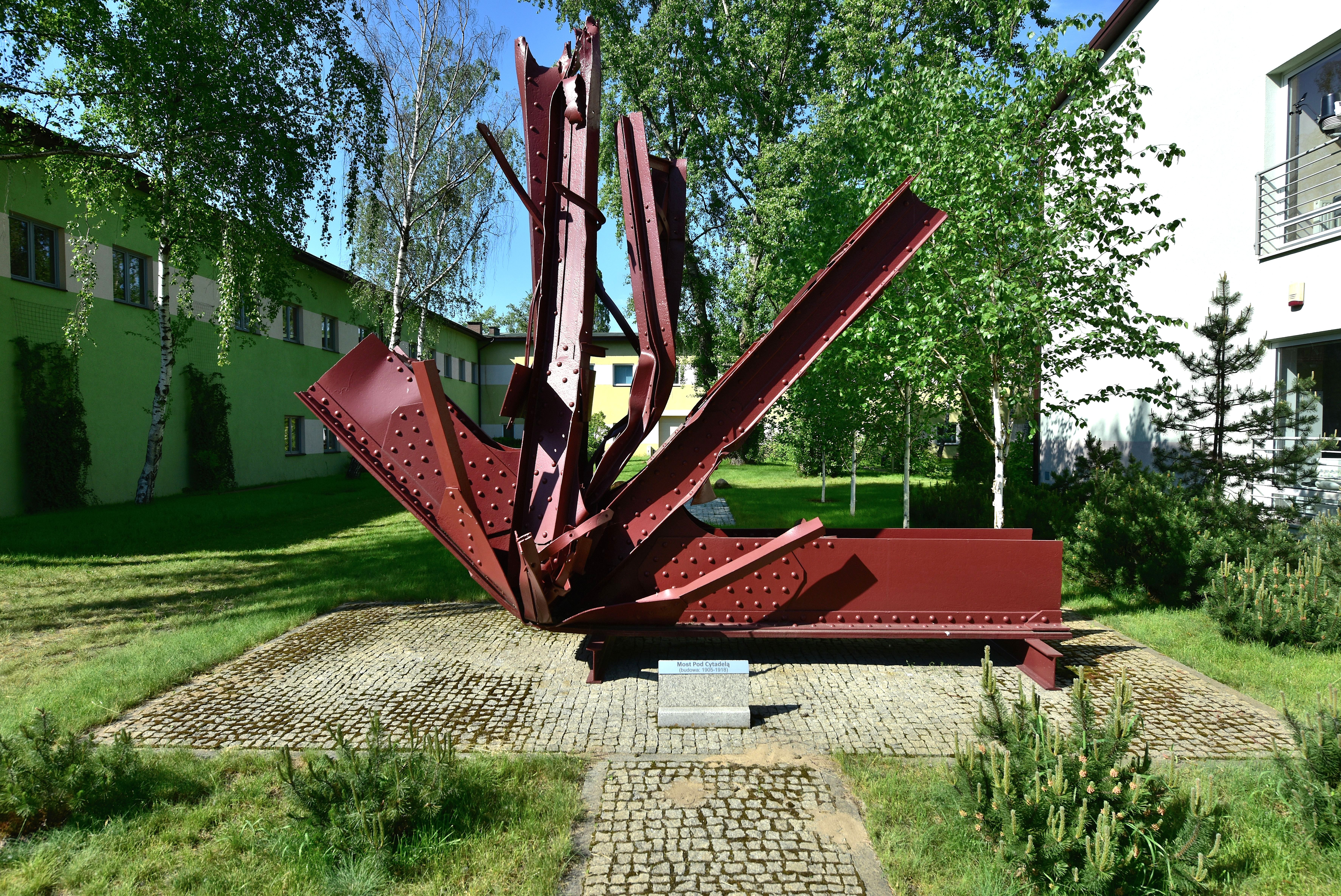 A piece of the Pod Cytadelą Bridge recovered from the Vistula on display at the Road and Bridge Research Institute at 1 Instytutowa Street in Warsaw